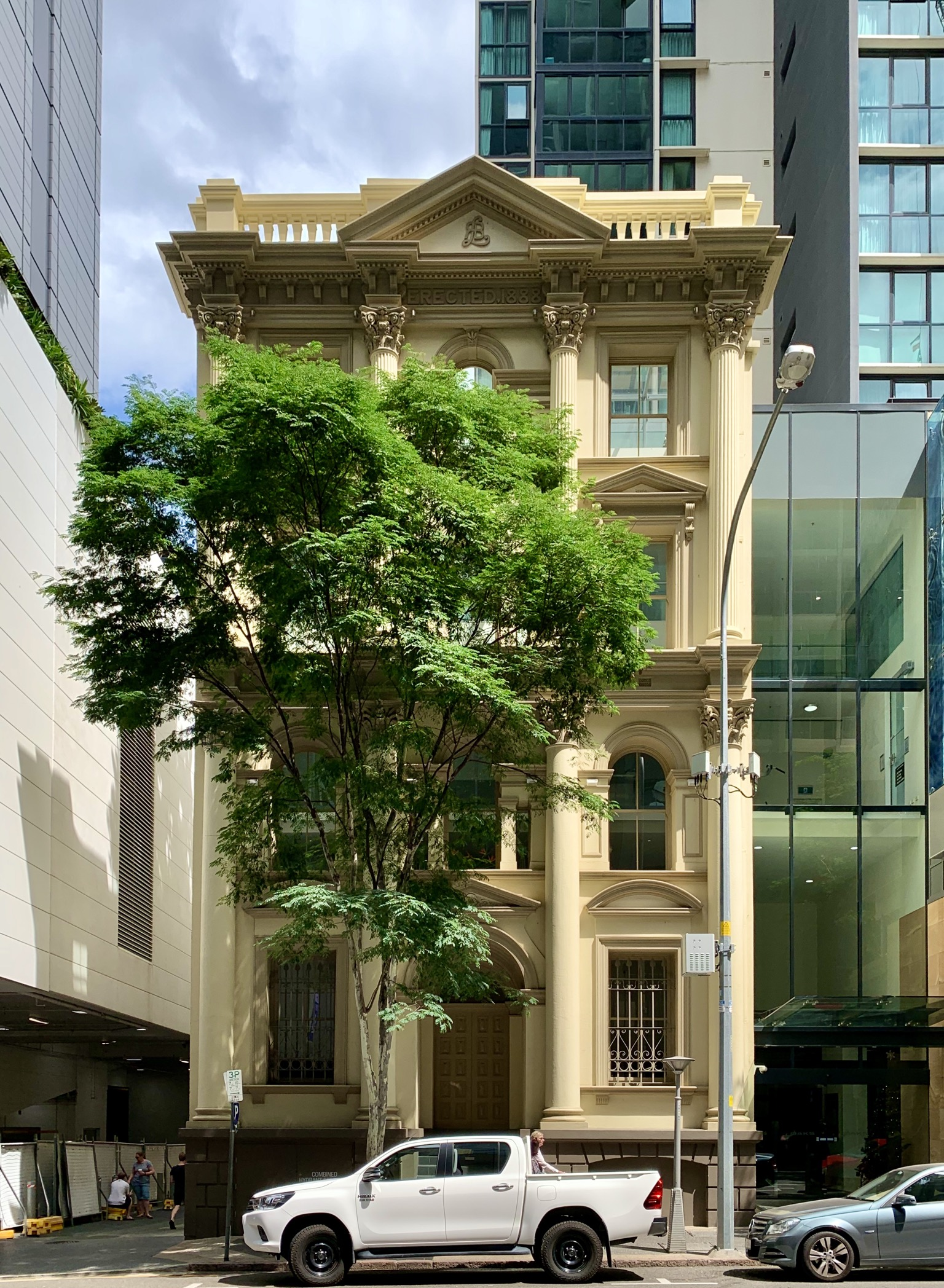 Pan Australia House facade. Also formerly known as Cowan House at 120 Charlotte Street, Brisbane